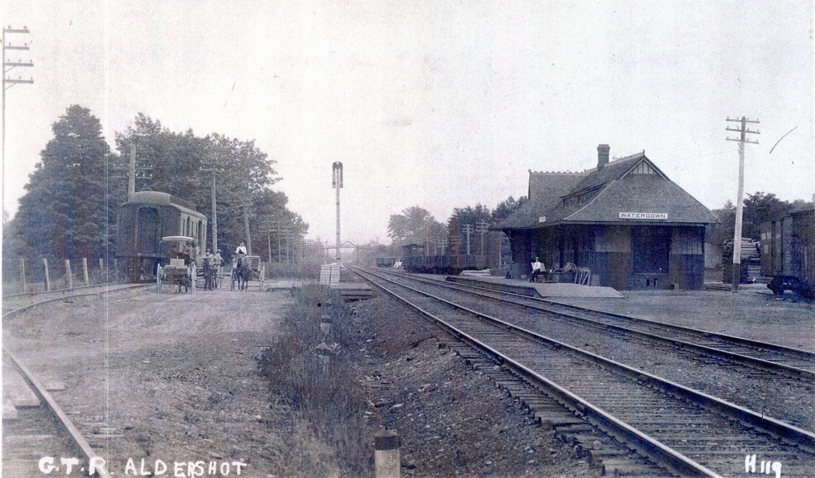 "A laser print of an original postcard. The sign with the incorrect name Waterdown was changed to Aldershot ca 1918." Originally named after Waterdown Road in Aldeshot, Burlington, Ontario.